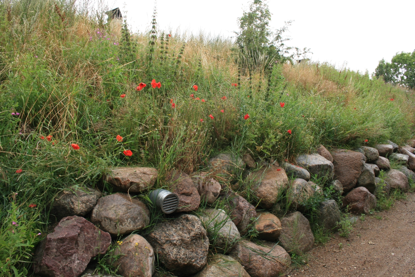 The village society of "Dyssekilde" at Torup, northern Sealand, Denmark